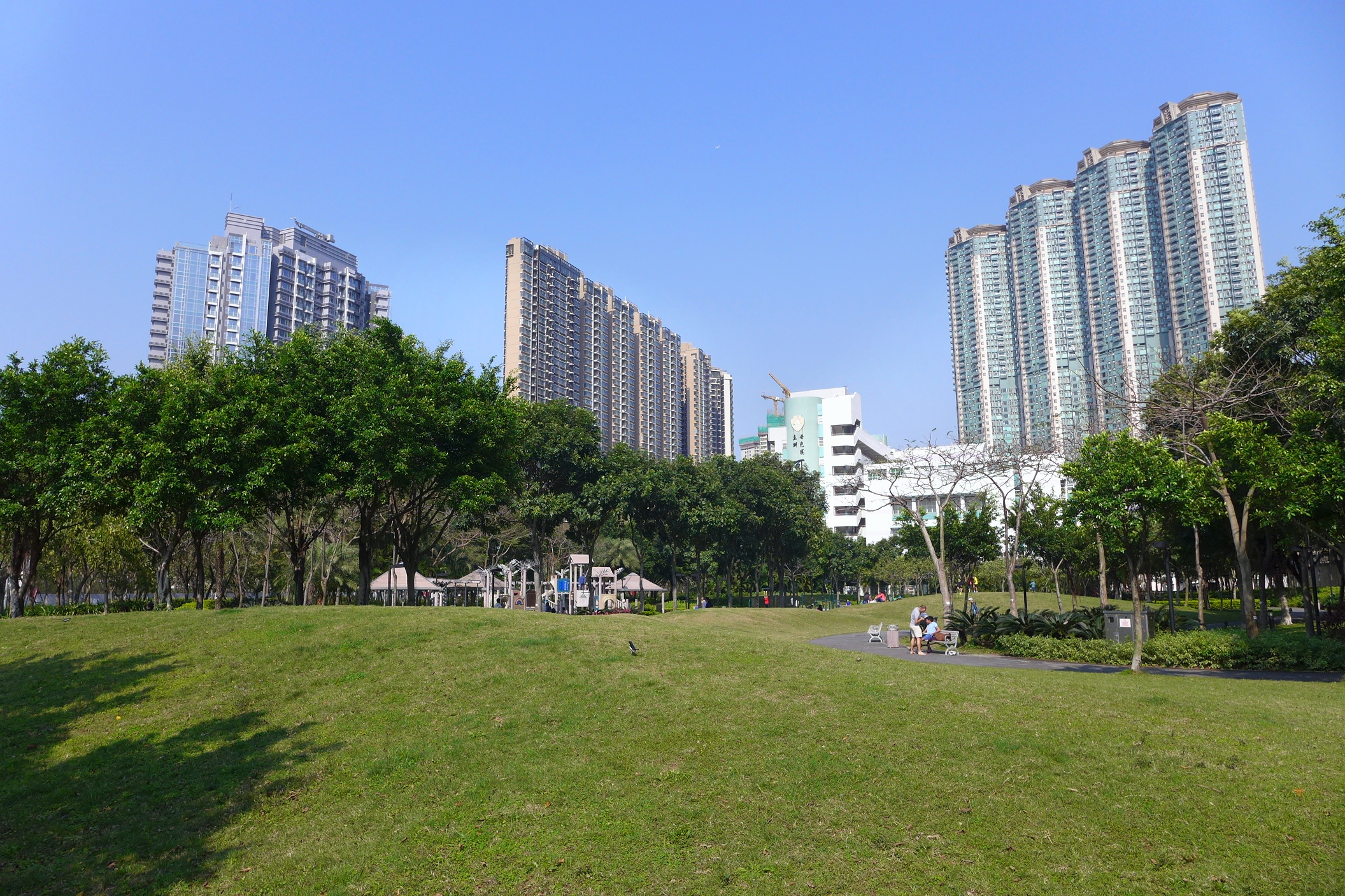 Caribbean Square